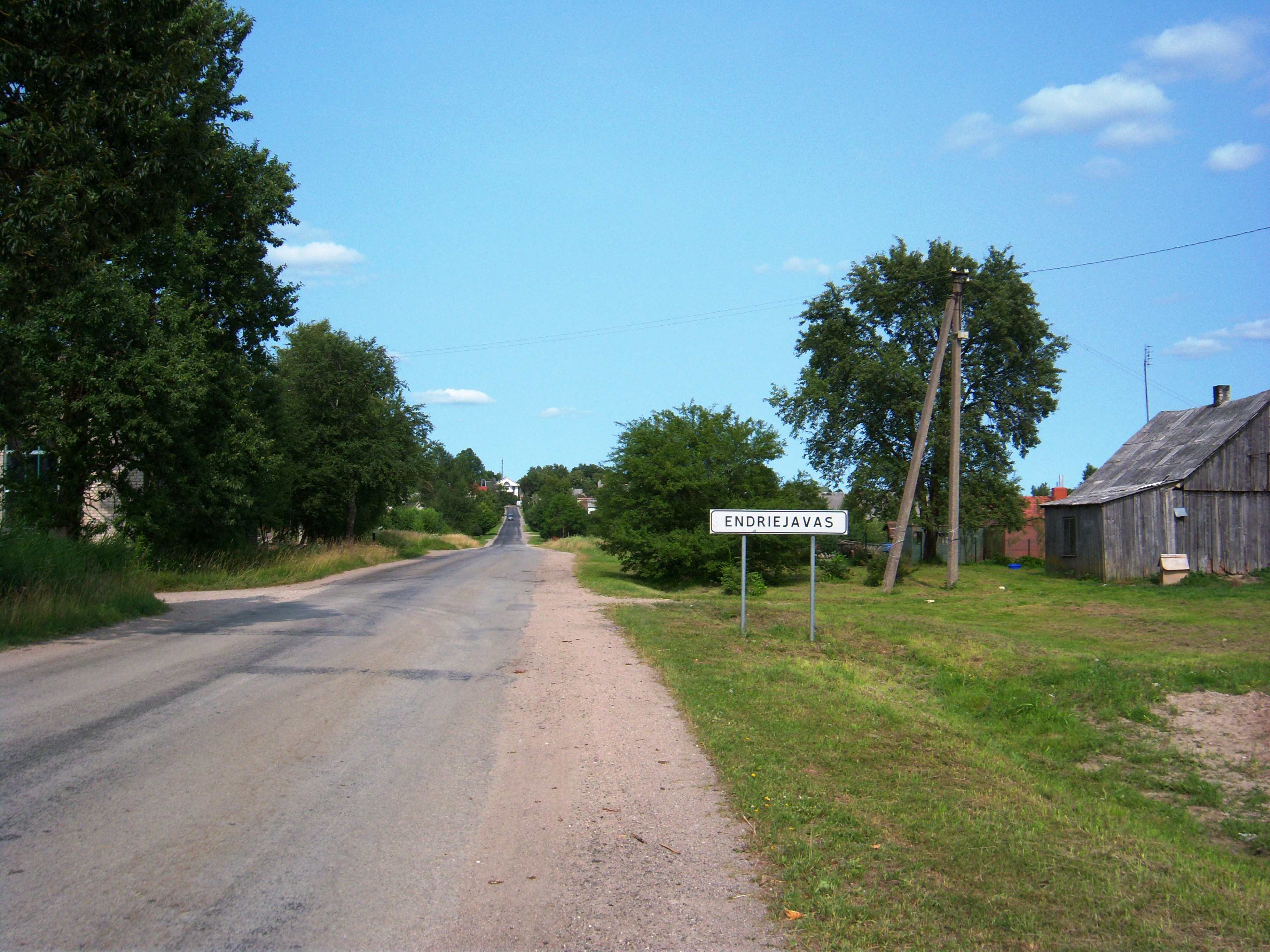 Endriejavas, Klaipėda District, Lithuania